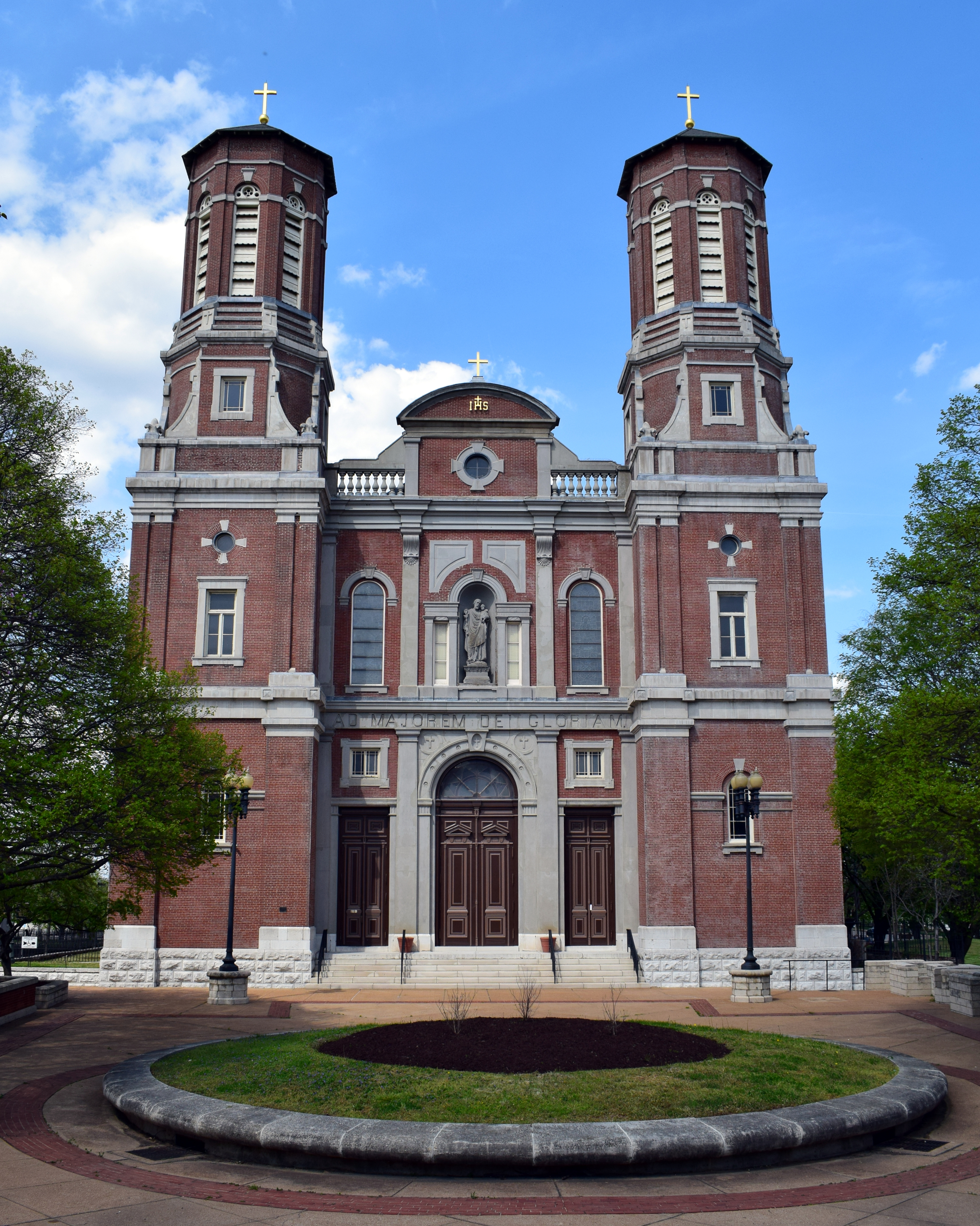 Shrine of Saint Joseph Church (St. Louis, Missouri) - exterior